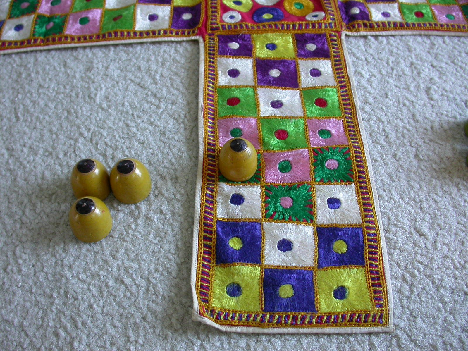 Indian game of Chopat